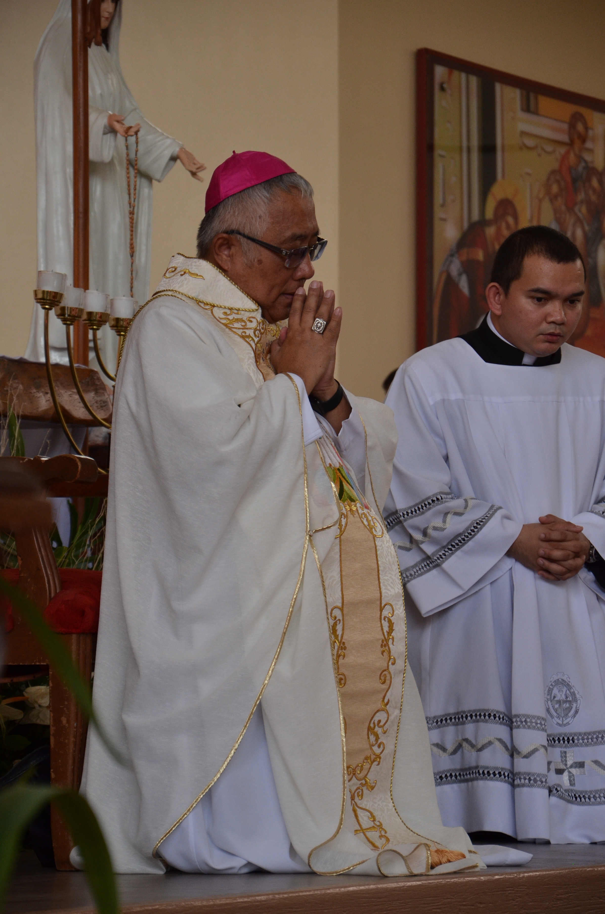 Archbishop Argüelles during an Ordination in 2016